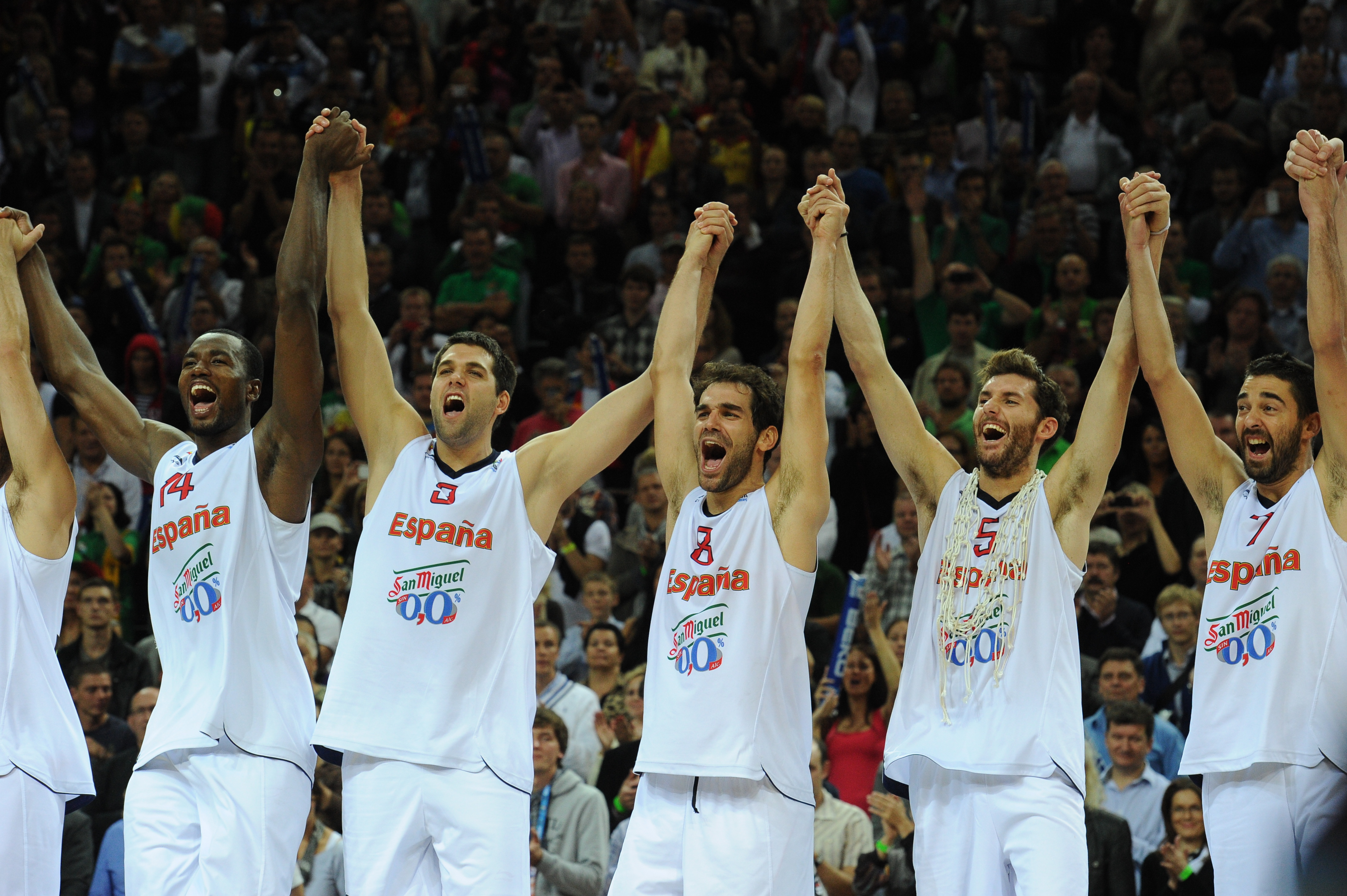 Spain national basketball team at Eurobasket 2011.